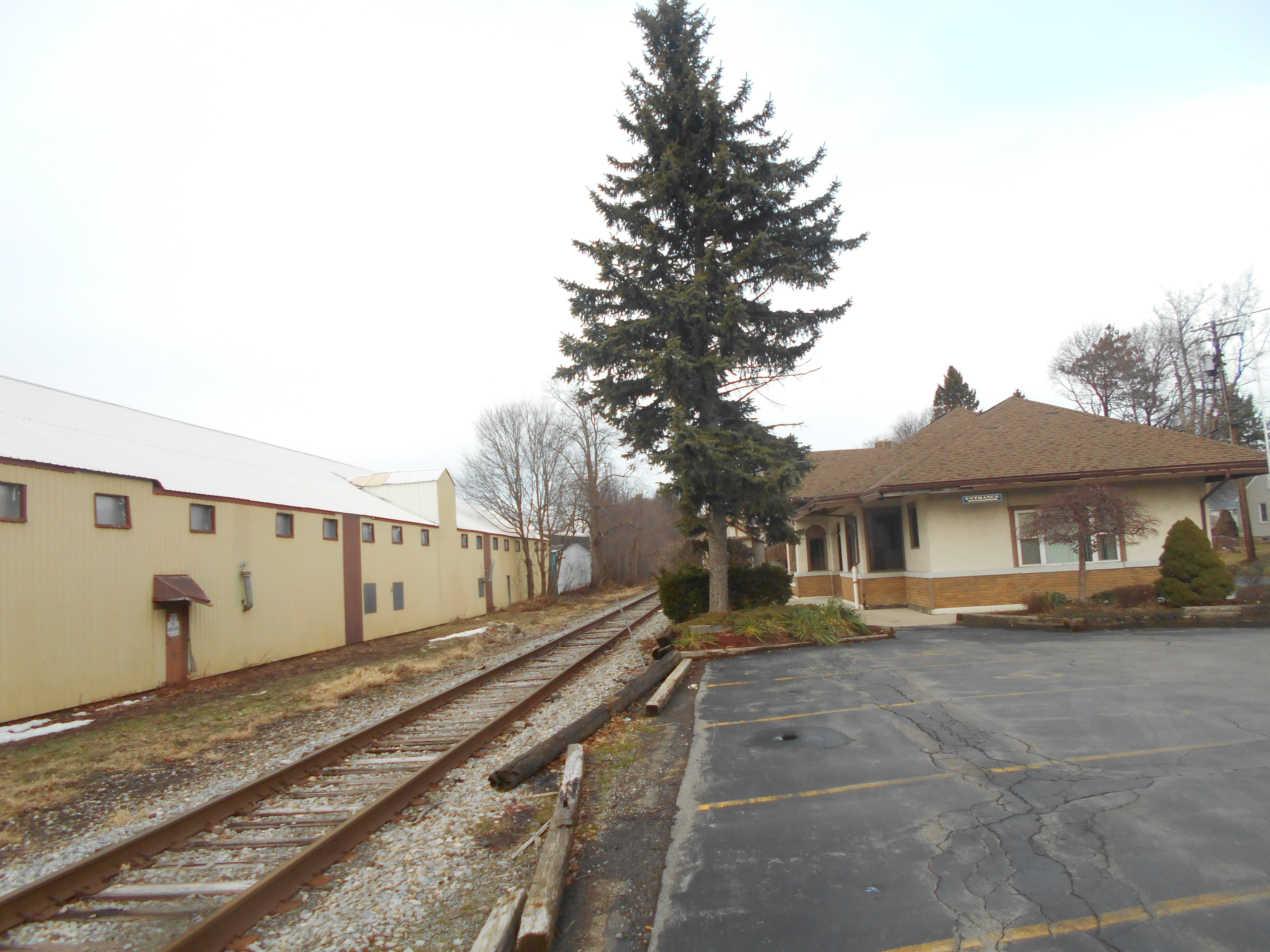 The Hamburg station constructed in 1922 for the Buffalo and Southwestern Railroad in Hamburg, New York.